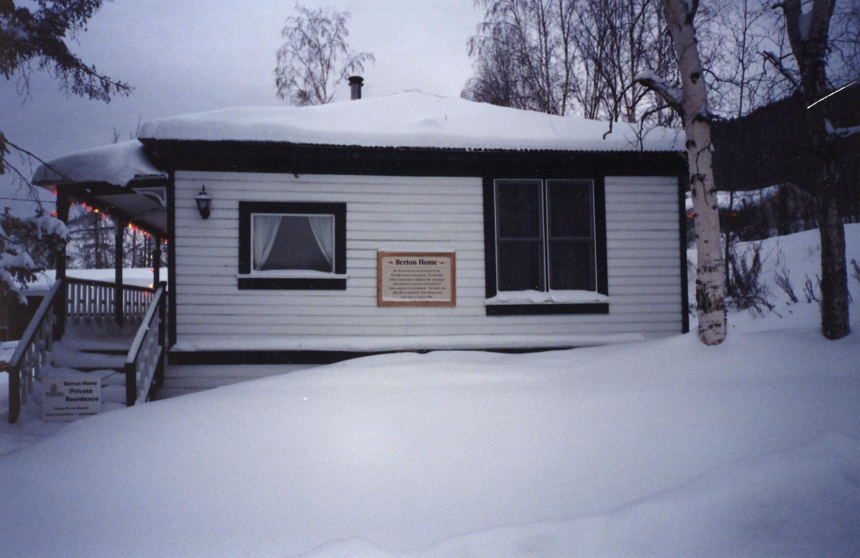 Picture of Berton House, a residence in Dawson City, Yukon. Each year, 4 Canadian authors are invited to the remote area for 3 months each as part of the Writers' Trust of Canada's Writers Retreat.